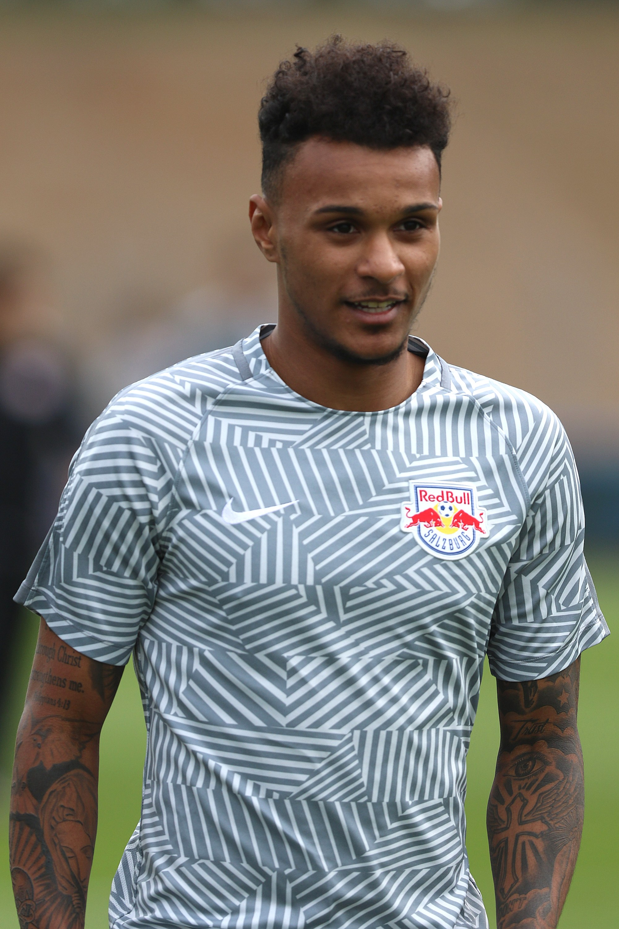 2016–17 Austrian Cup: FC Admira Wacker Mödling (red shirts) vs. FC Red Bull Salzburg (white shirts) at 26. April 2017 in the BSFZ-Arena in Maria Enzersdorf 0:5 (0:2) – The photo shows Valentino Lazaro (FC Red Bull Salzburg)